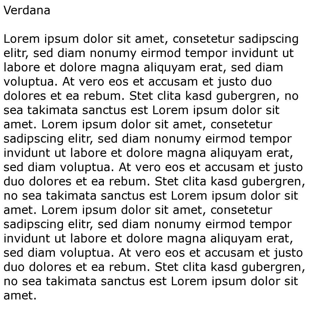 lorem ipsum in typeface Verdana